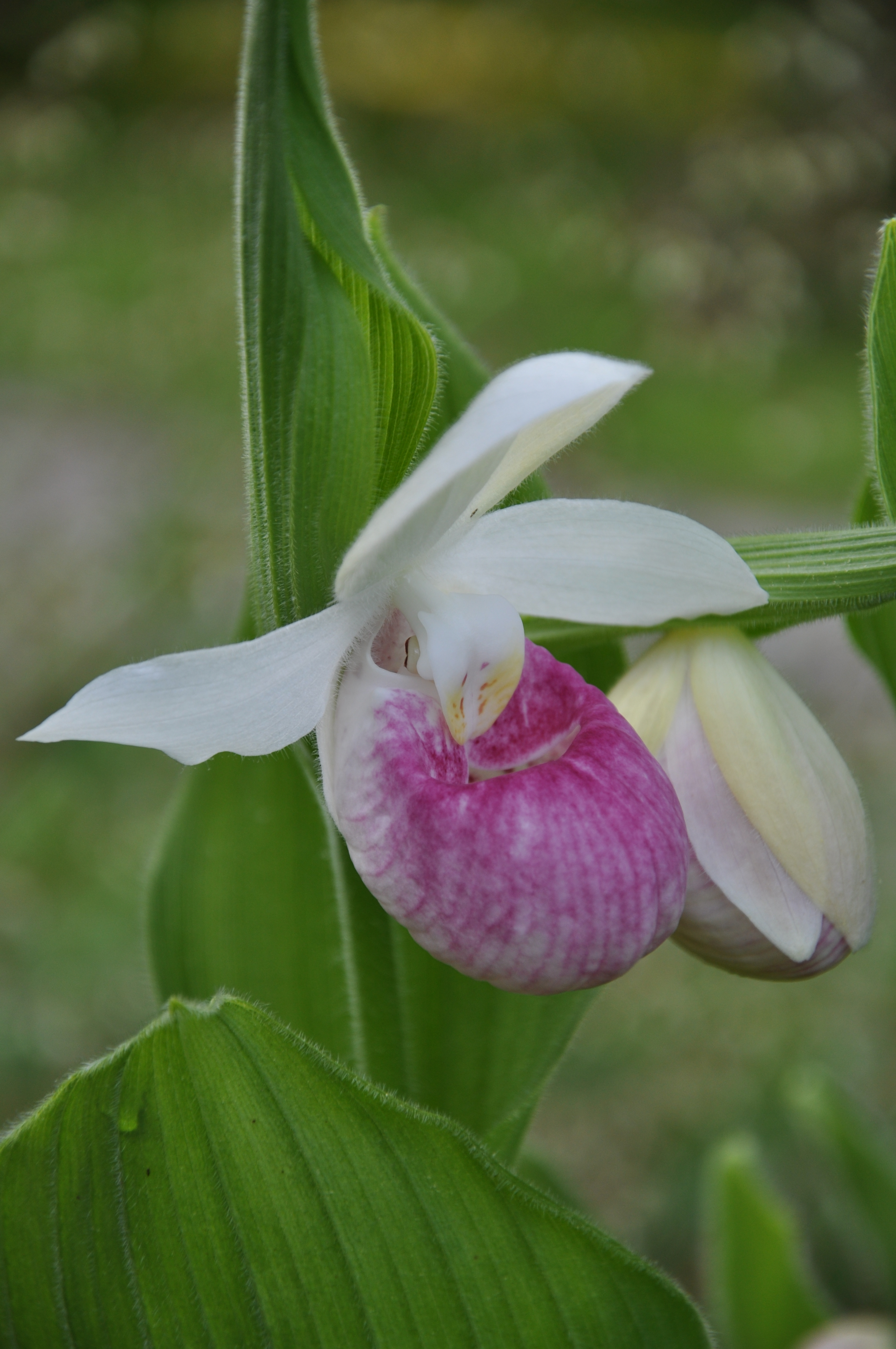 Showy Lady's Slipper